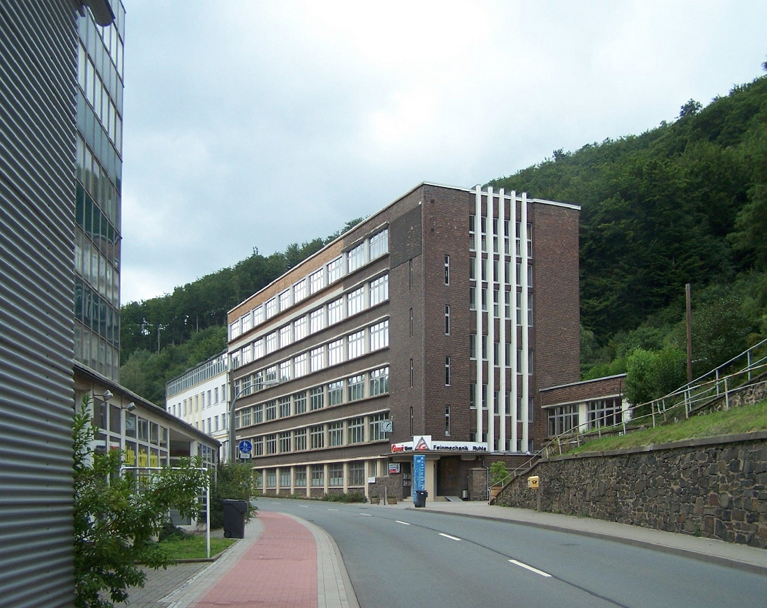 The former watch factory in Ruhla, Germany.